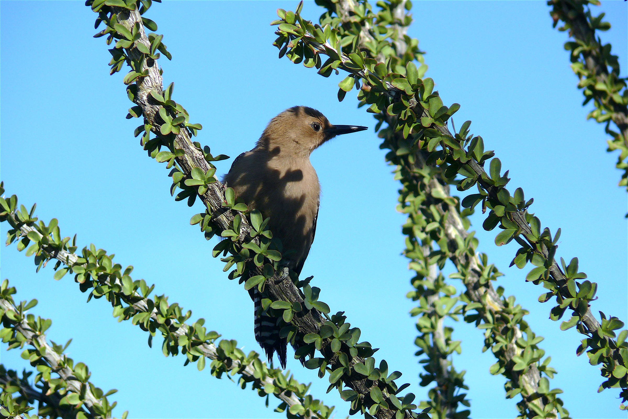 Gila Woodpecker (Melanerpes uropygialis) (female) At Organ Pipe Cactus National Monument